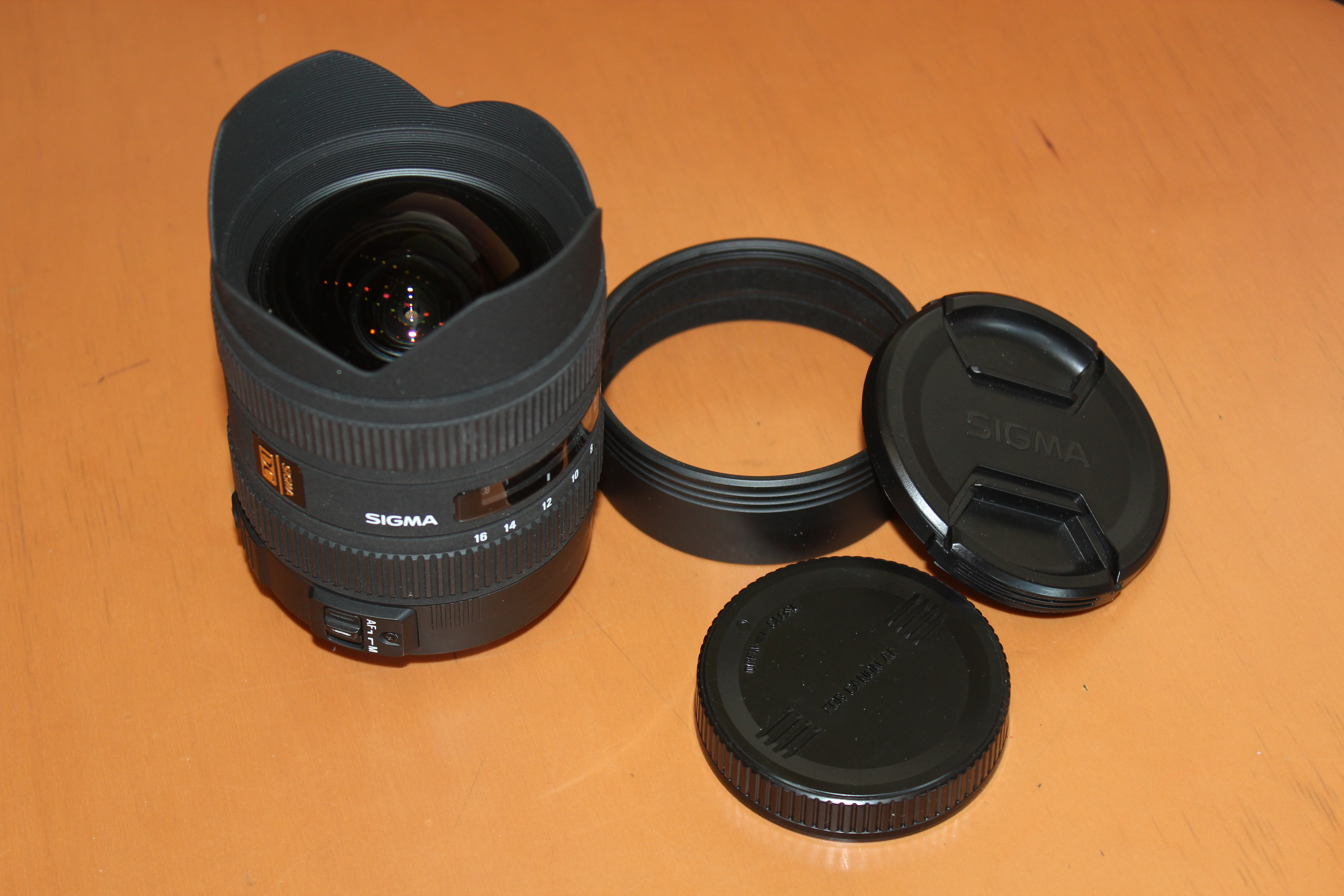 Sigma 8-16mm f/4.5-5.6 DC HSM lens